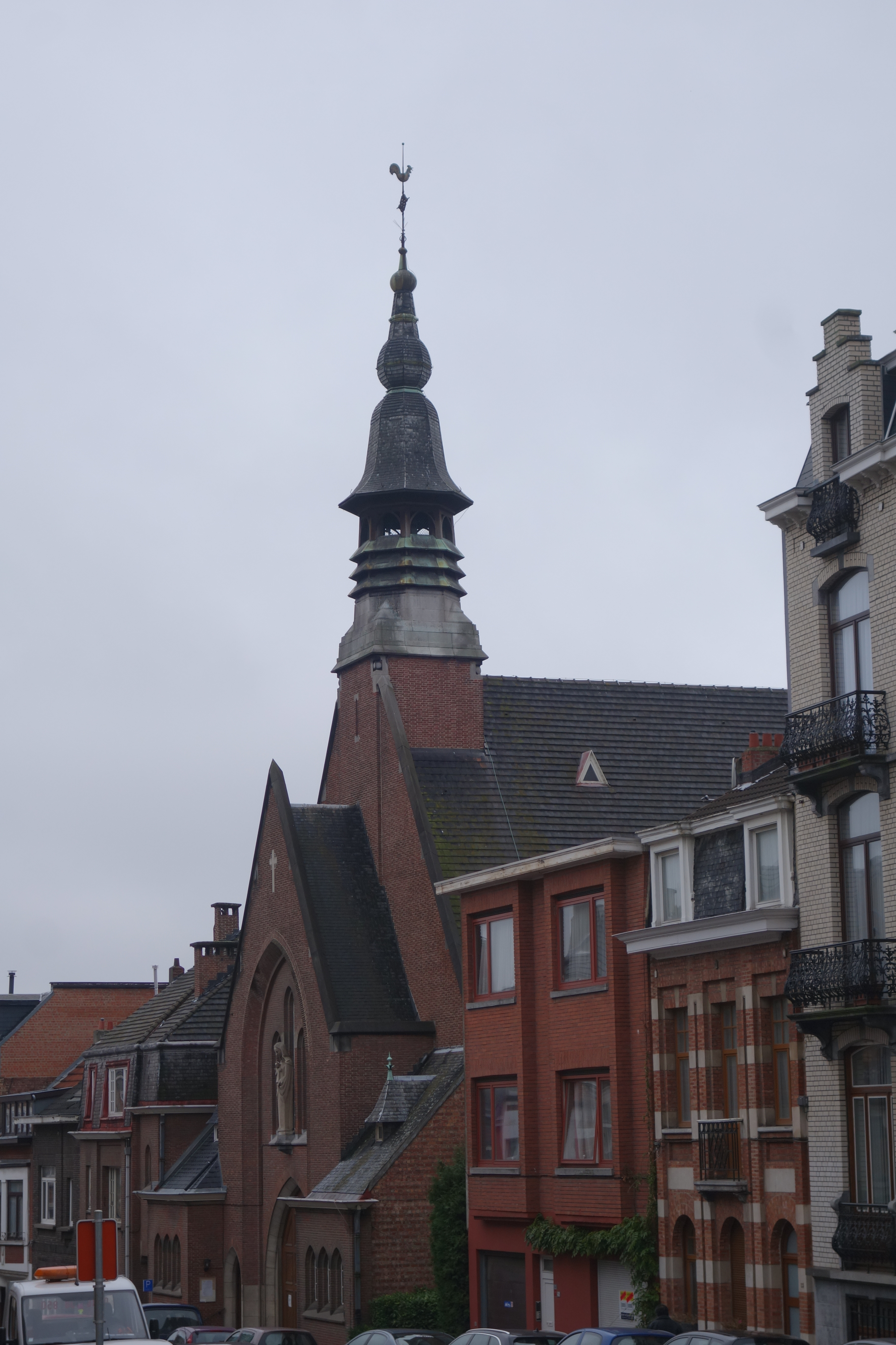 Kerk Sinte Maria Moeder Gods, Meloenstraat